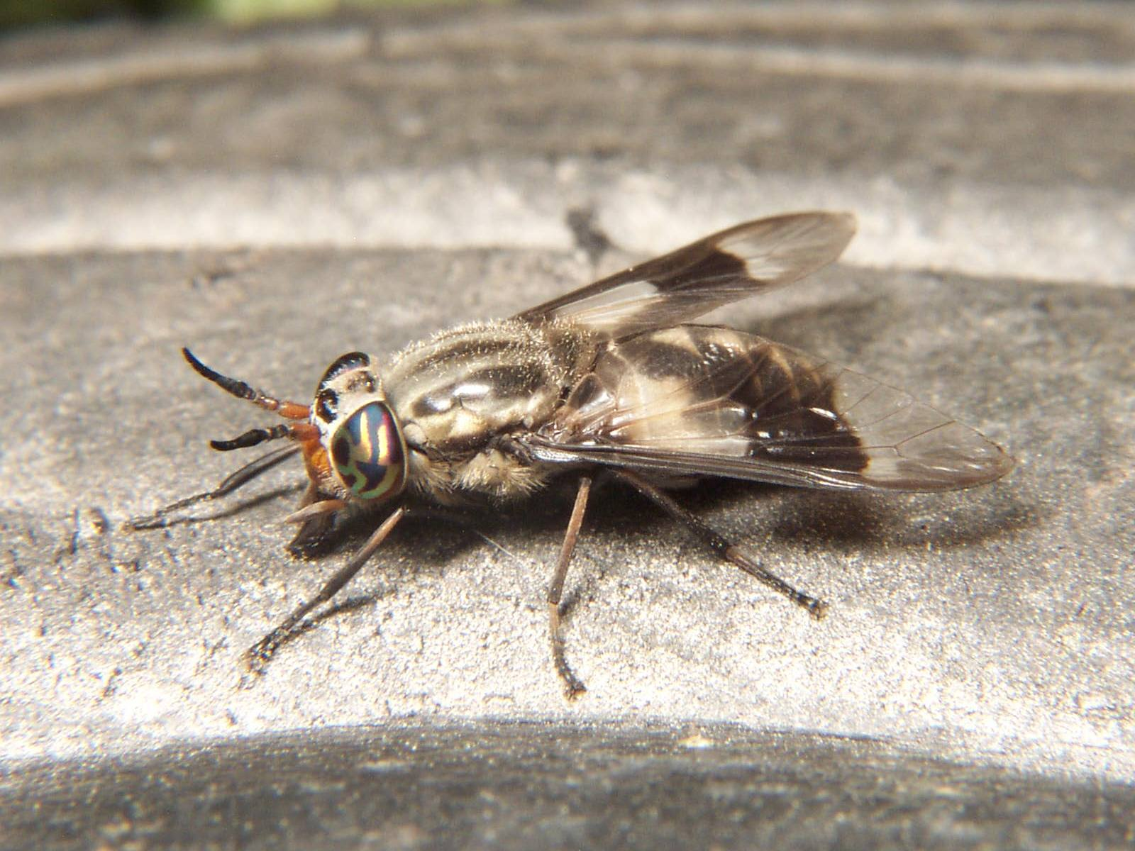 Adult deer fly, Chrysops callidus